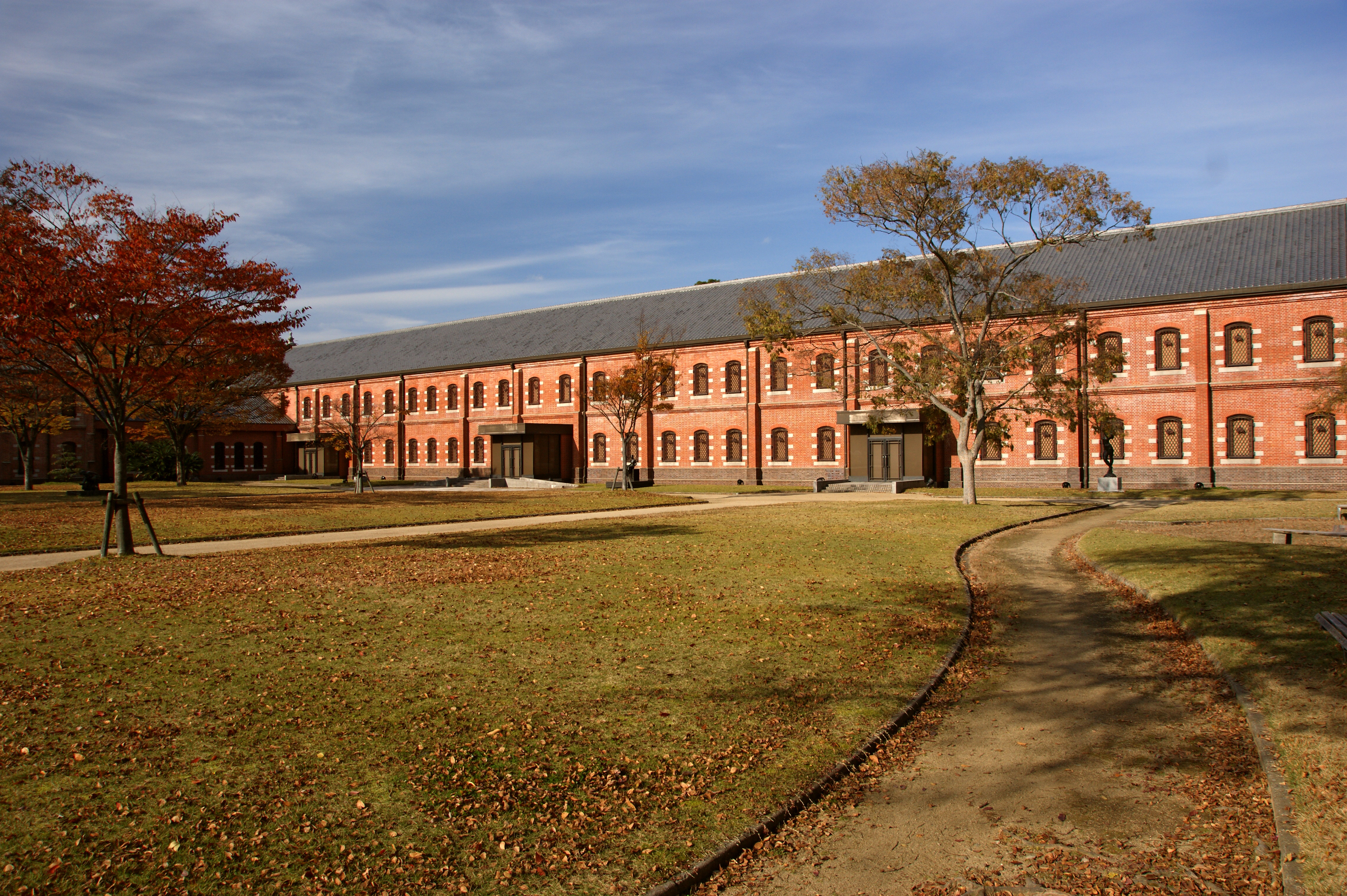 Himeji City Museum of Art in Himeji, Hyogo prefecture, Japan